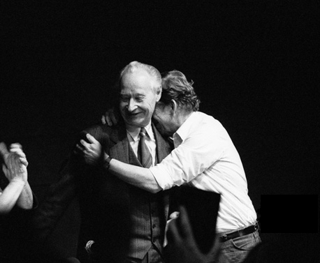 Václav Havel embraces Alexander Dubček at a meeting in the Laterna Magika theatre in Prague, at 24 November 1989. That same night the whole leadership of the Czechoslovak Communist Party resigns. Personality rights warningAlthough this work is freely licensed or in the public domain, the person(s) shown may have rights that legally restrict certain re-uses unless those depicted consent to such uses. In these cases, a model release or other evidence of consent could protect you from infringement claims.